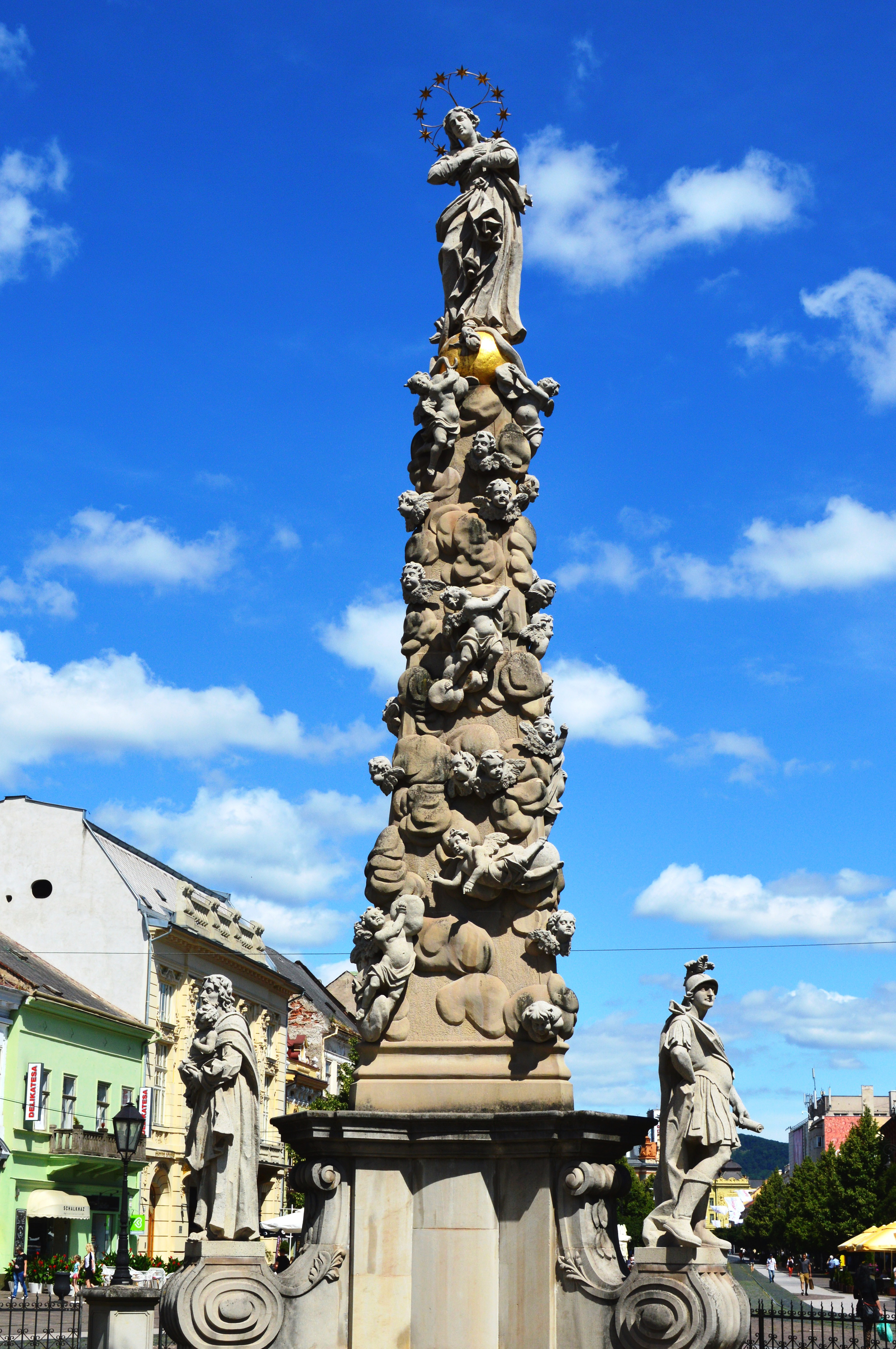 Košice is the biggest city in eastern Slovakia and in 2013 was the European Capital of Culture together with Marseille, France. It is situated on the river Hornád at the eastern reaches of the Slovak Ore Mountains, near the border with Hungary. Košice is the second largest city in Slovakia after the capital Bratislava. The first evidence of inhabitance can be traced back to the end of the Paleolithic era. The first written reference to the Hungarian town of Košice (as the royal village – Villa Cassa) comes from 1230. After the Mongol invasion in 1241, King Béla IV of Hungary invited German colonists to fill the gaps in population. The city has a well-preserved historical centre, which is the largest among Slovak towns. There are many heritage protected buildings in Gothic, Renaissance, Baroque, and Art Nouveau styles with Slovakia's largest church: the St Elisabeth Cathedral. The city is well known as the first settlement in Europe to be granted its own coat-of-arms . The Scotch Mist Gallery contains many photographs of historic buildings, monuments and memorials of Poland and beyond.